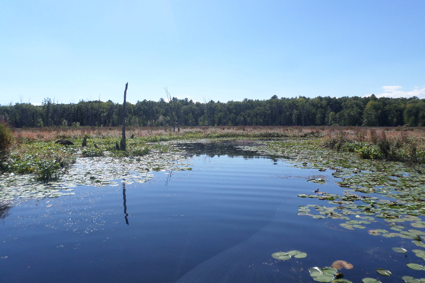 The source of the Anthony Kill near Round Lake, New York